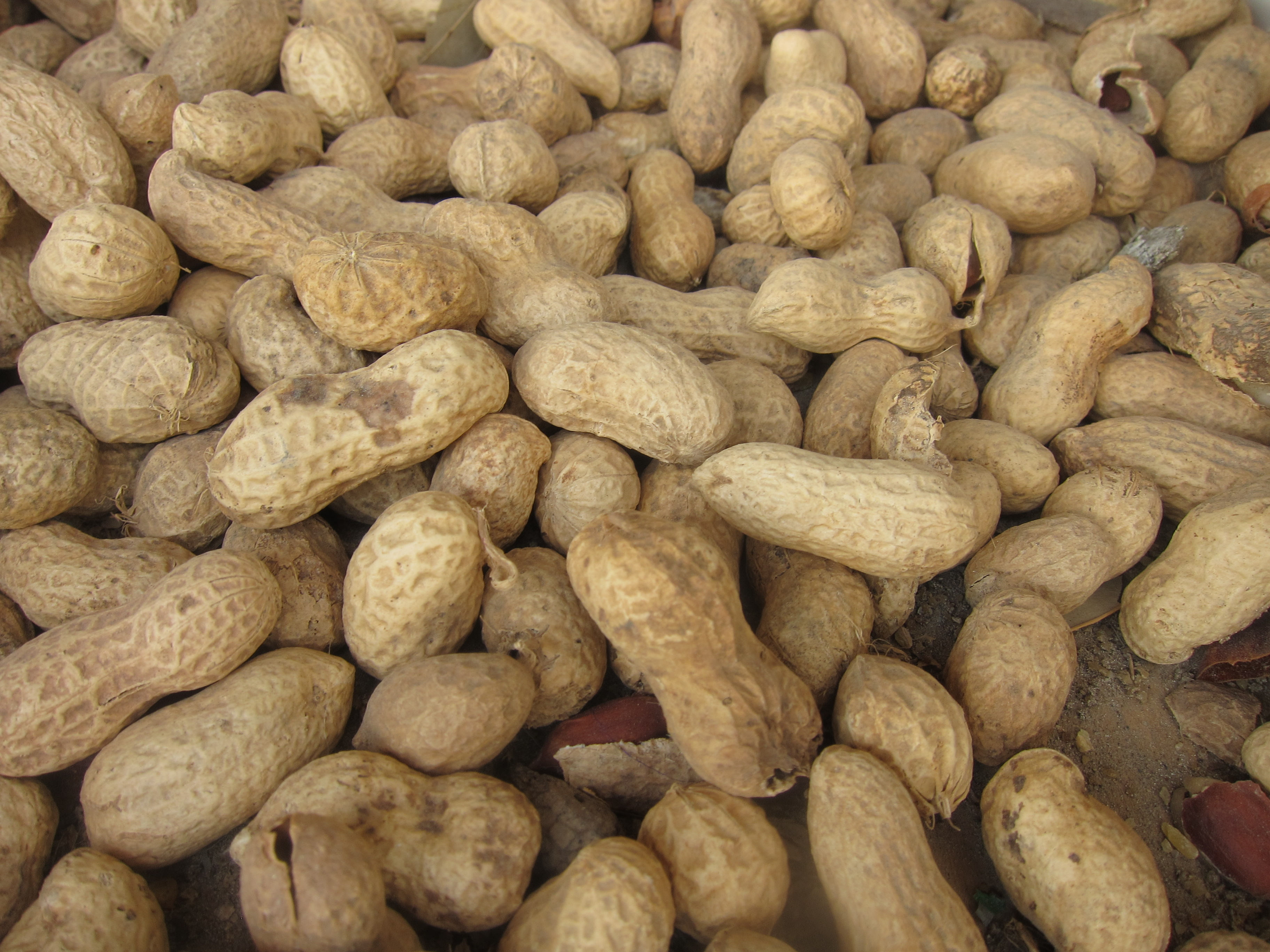 Peanut Groundnut Arachis hypogaea - Scientific Name Fabaceae family നിലക്കടല കപ്പലണ്ടി